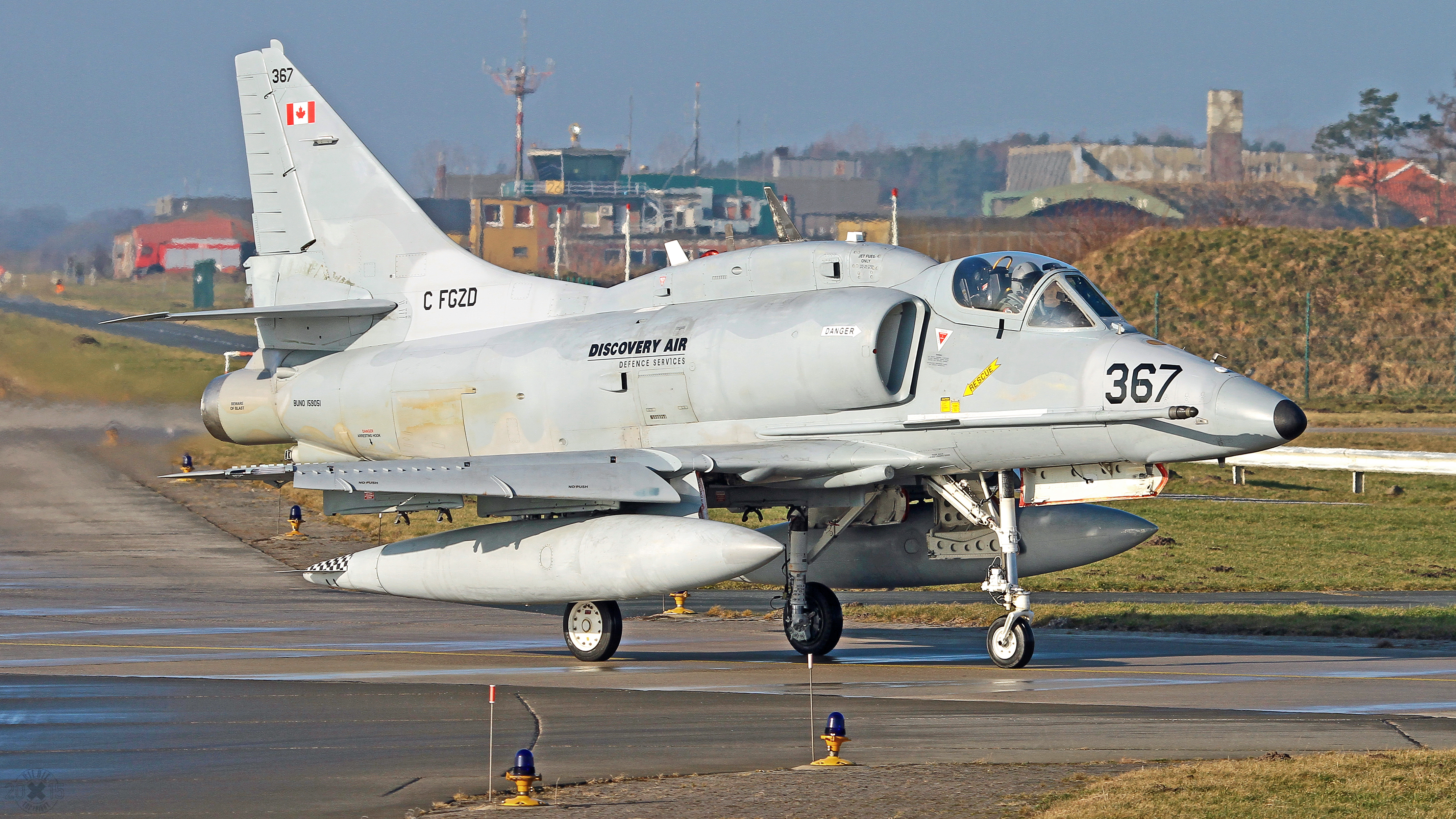 DA Defence German A4